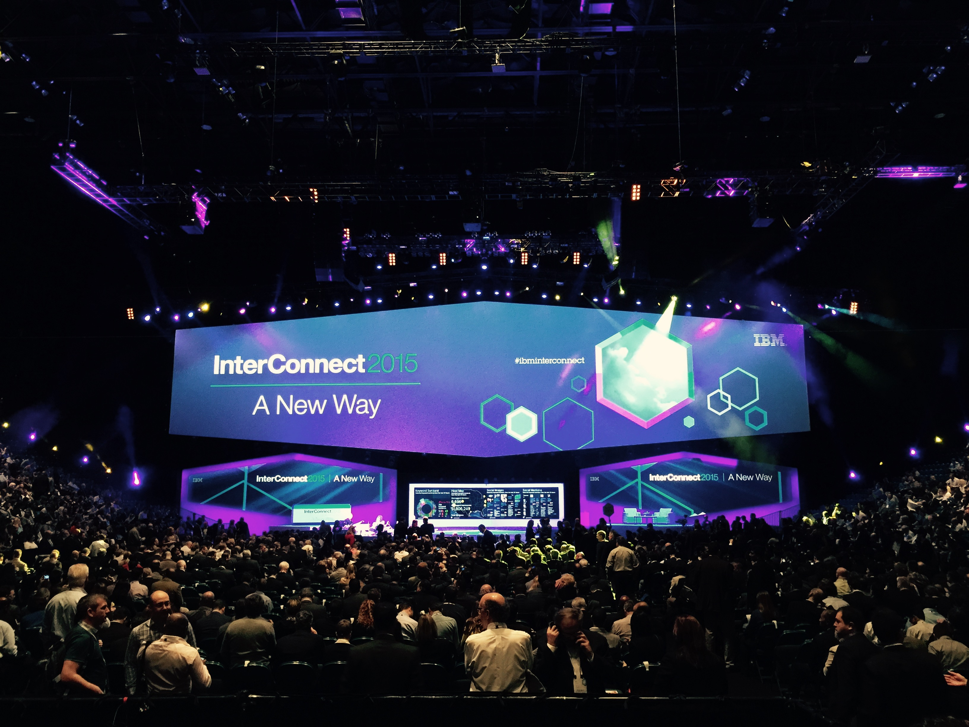 IBM InterConnect, 2015